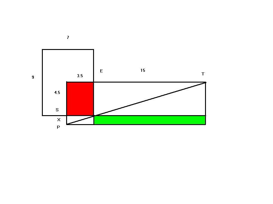 Jiuzhang suanshu Chap 9 problem 18, Rectangle city 第九卷第十八问：“今有邑，东西七里，南北九里